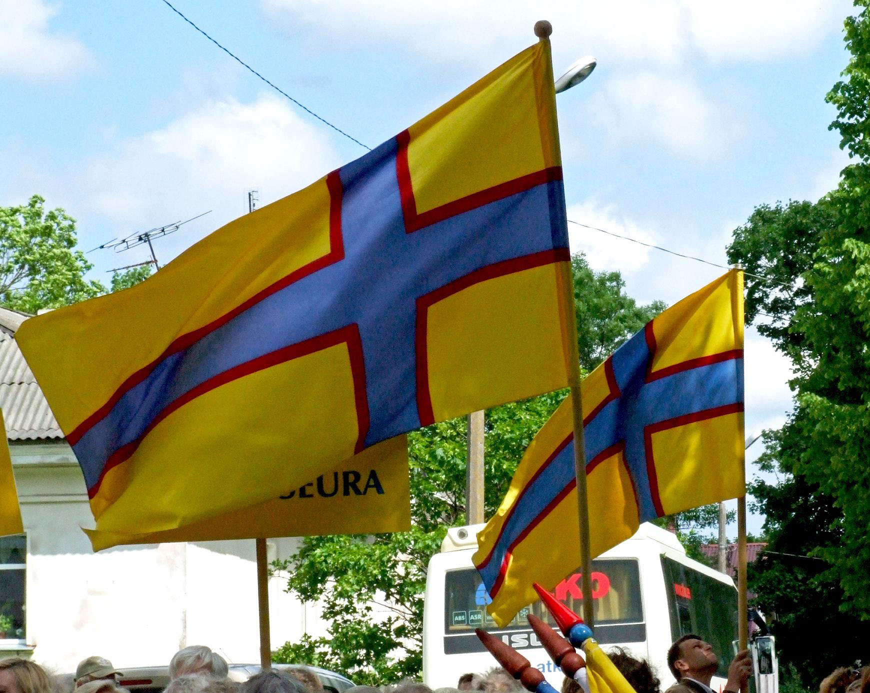 Ingrian flags